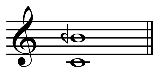 Created by Hyacinth (talk) 04:55, 8 January 2011 using Sibelius 5. Interval of a neutral seventh on C. 1050 cents.